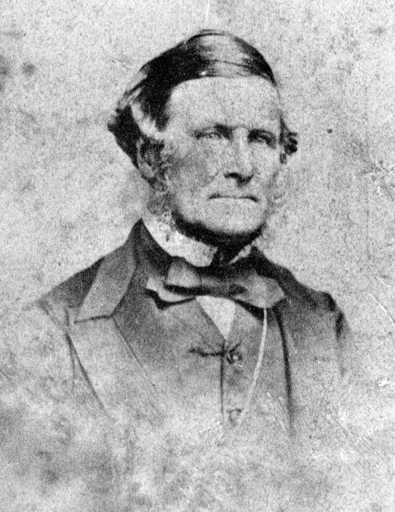 Joseph Fowles author of "Sydney in 1848" / date and photographer unknown (photographic copy, July 1932)